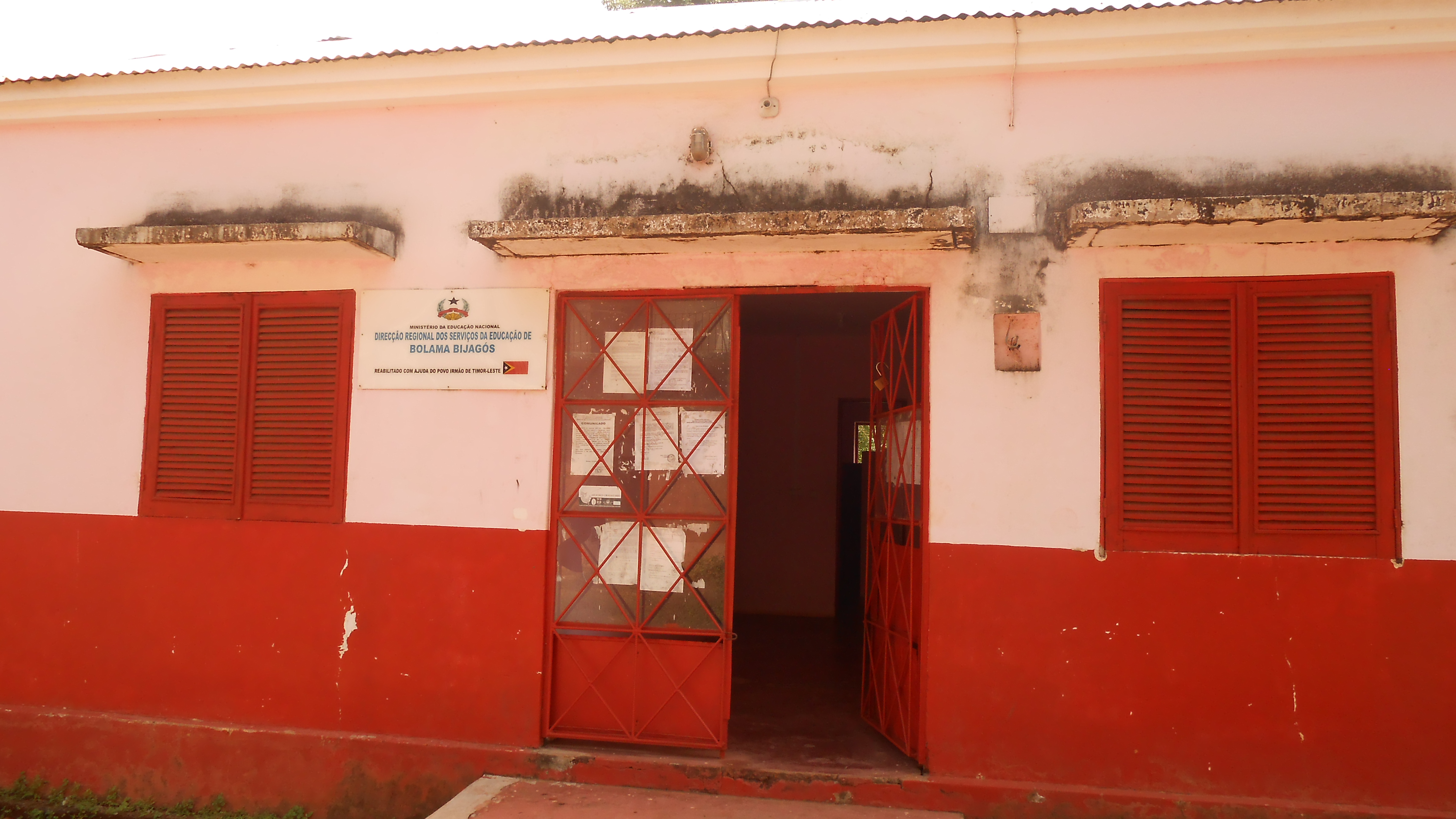 Regional board of the national education authority of Guinea-Bissau in Bolama in the Bissagos islands, restored with the help of East Timor.